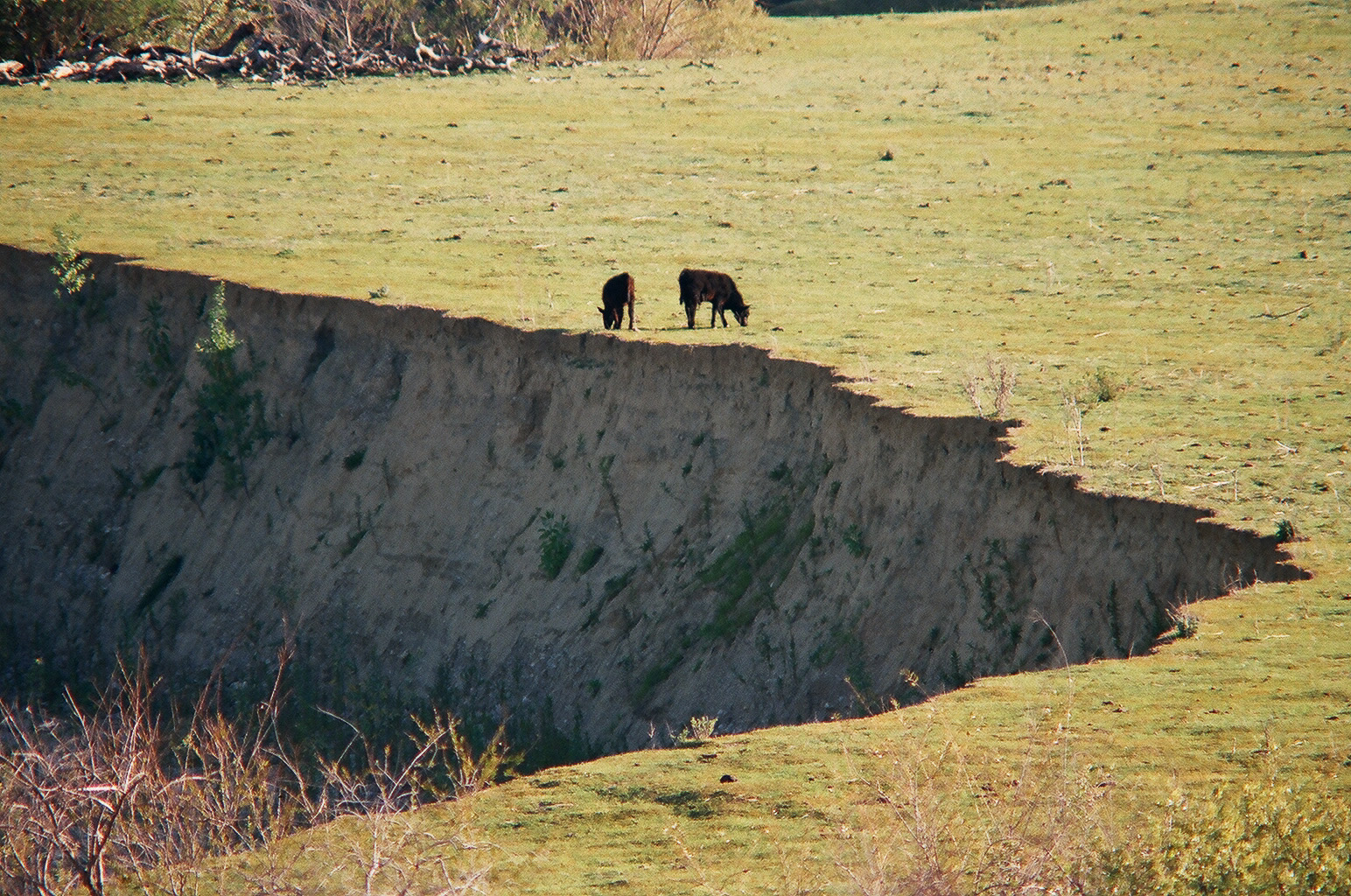 landscape photo of cows on the Rancho Cañada Larga o Verde ranch in Ventura County, California.